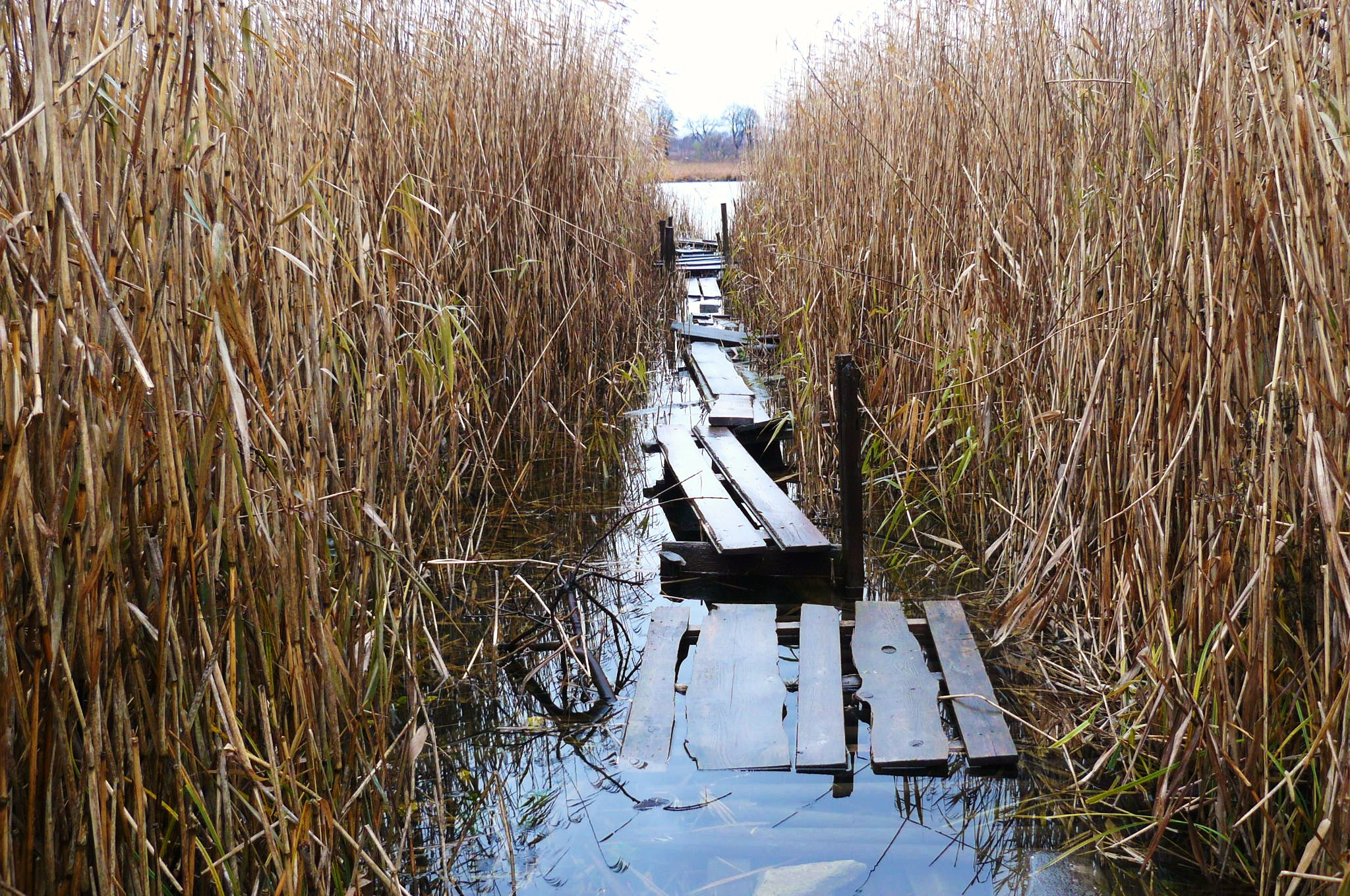 Umultowskie Lake - Poznan.